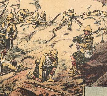 Piper findlater of the gordon highlanders plays as the british forces storm the dargai heights during the tirah campaign (1897). From a british sheet music book of 1898.